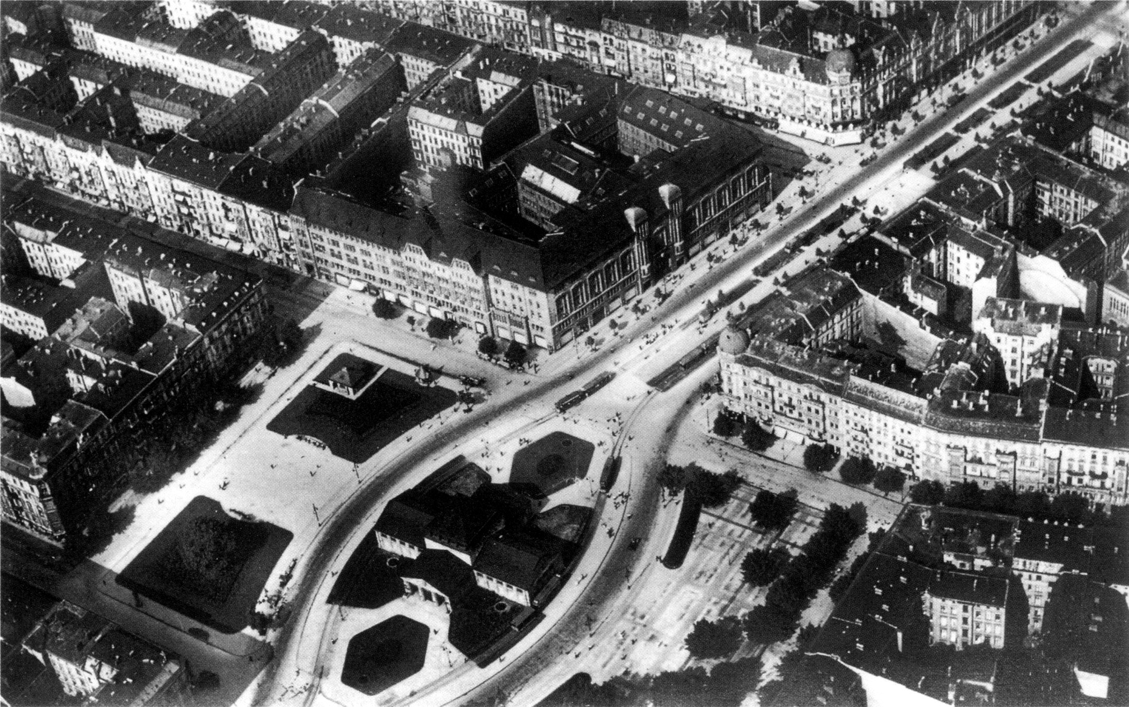 Aerial view of Wittenbergplatz in Berlin (1920)